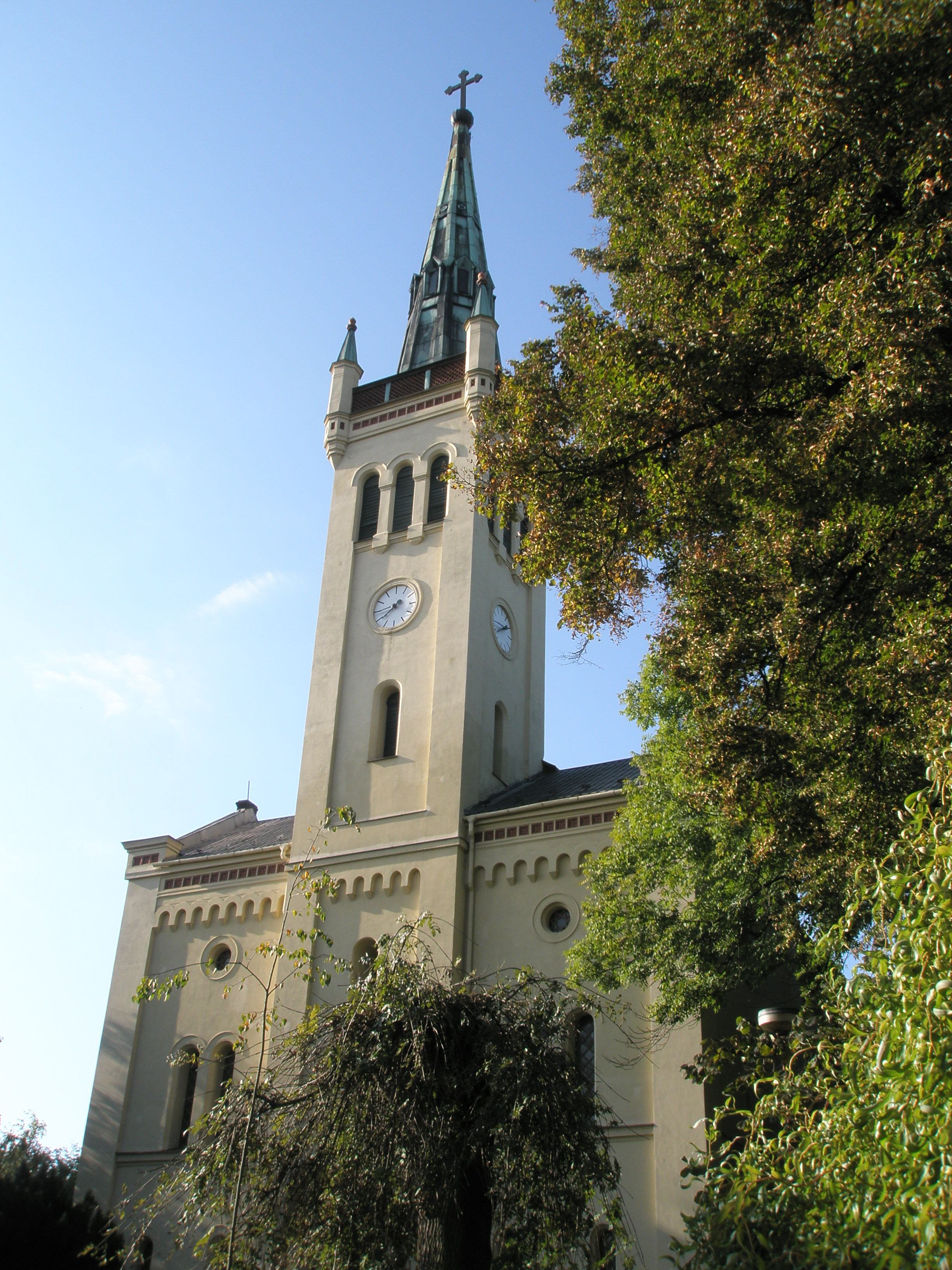 Protestant church in Suchdol nad Odrou (Zauchtel), Czech republic